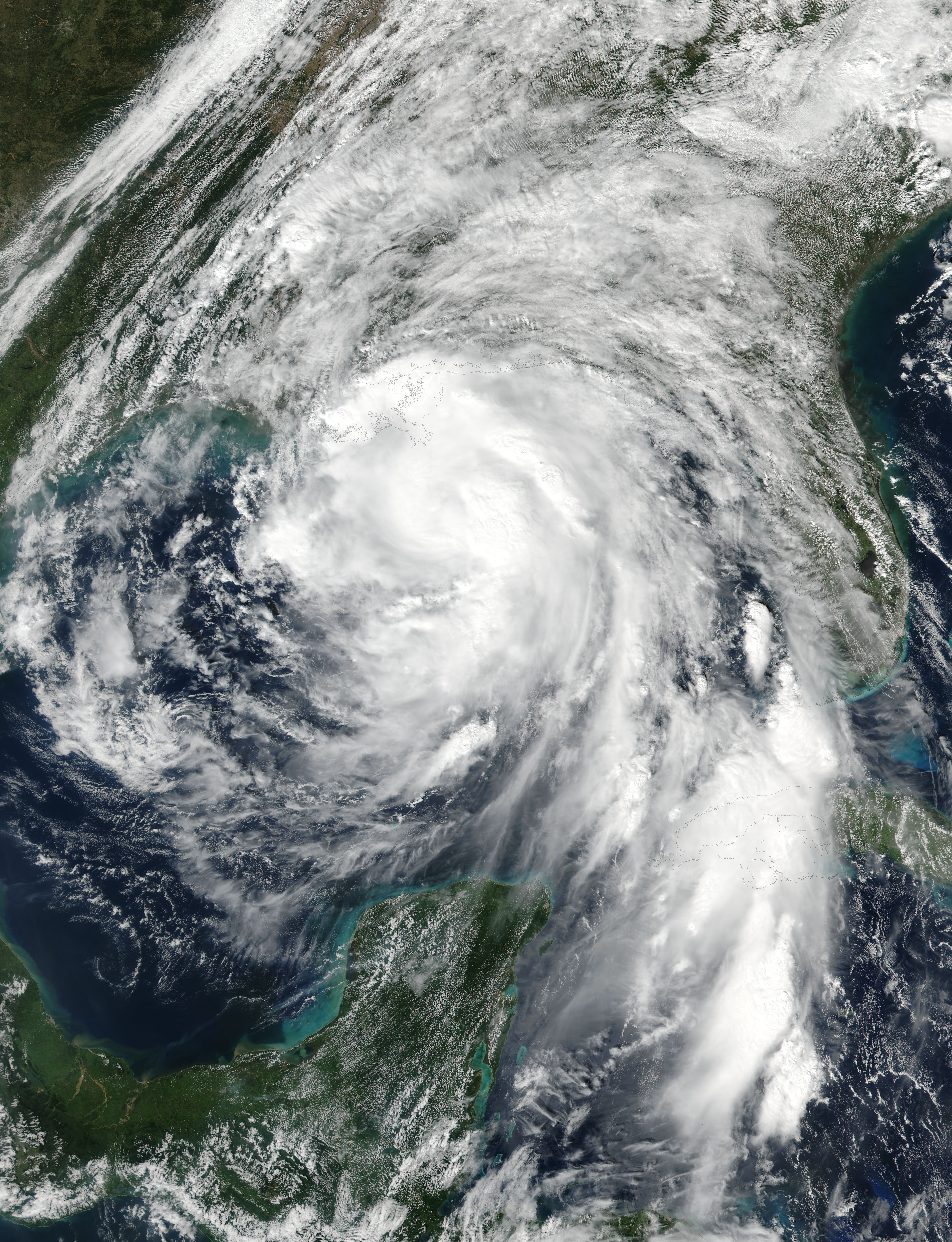 Hurricane Nate (16L) approaching New Orleans